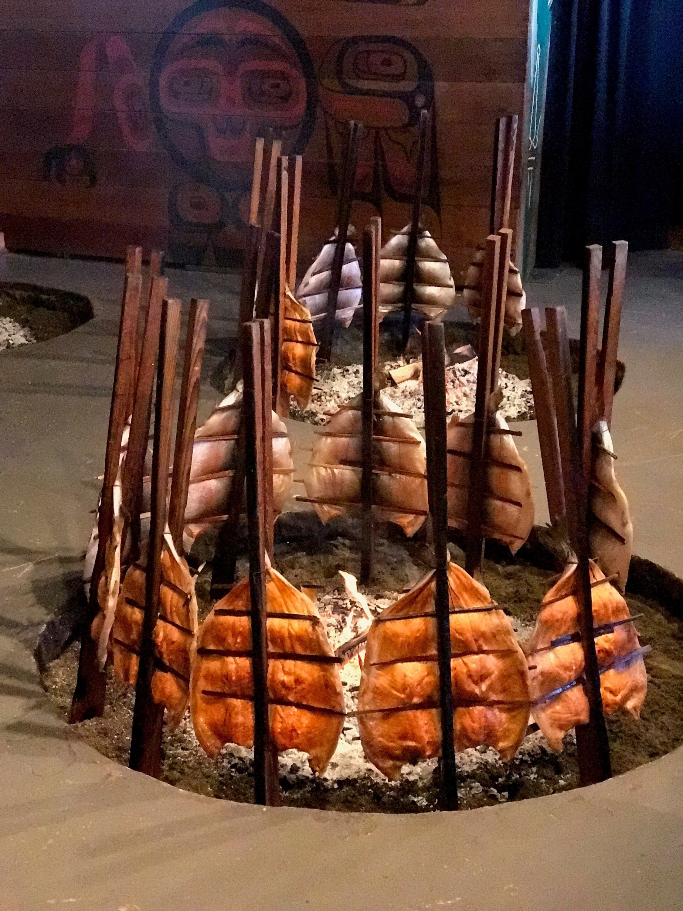 Inside the Long House at Tillicum Village at the Blake Island State Park in Washington State, salmon are split open across wooden (type unverified) rods and cooked over a small open fire pit in the long house.